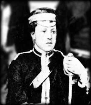 Henry Weysford Charles Plantagenet Rawdon-Hastings, 4th Marquess of Hastings. Pictured above in 1861 (age 19) as Lieutenant in the Prince Albert's Own Leicestershire Yeomanry Cavalry.